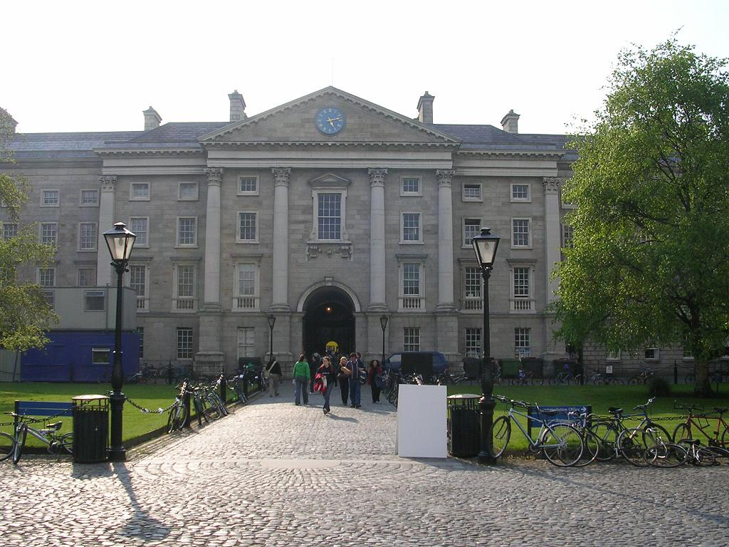 Trinity_College